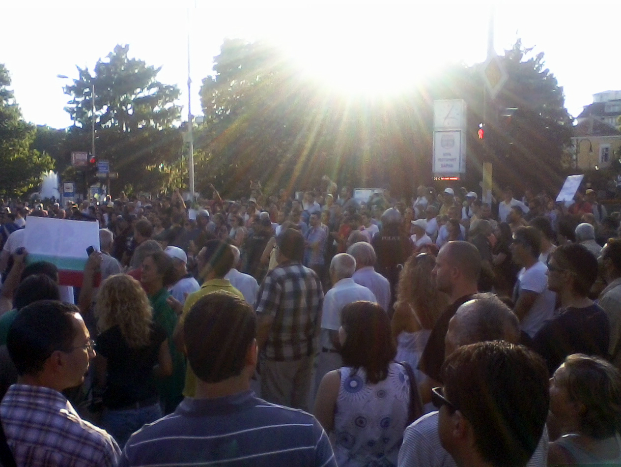 Okupirai Varna 03_07_2012